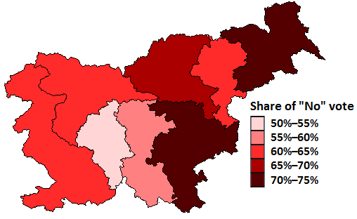 Map showing the results of a referendum on a bill legalizing same-sex marriage in Slovenia 2015